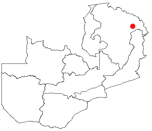 Isoka, Zambia Location Map; created with the GIMP. Made by User:Acntx.